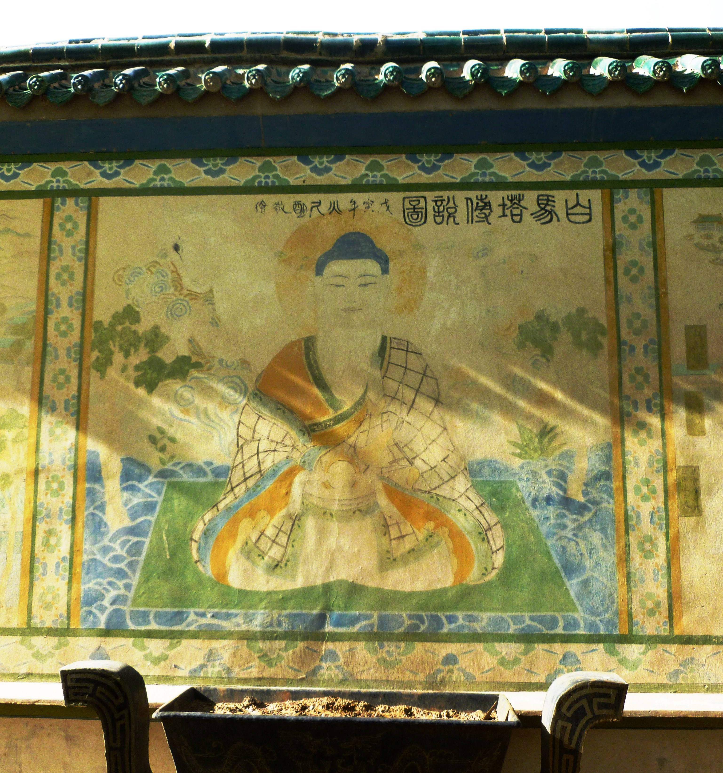 A close-up of a painting and incense brazier at White Horse Pagoda, Dunhuang, June, 2011